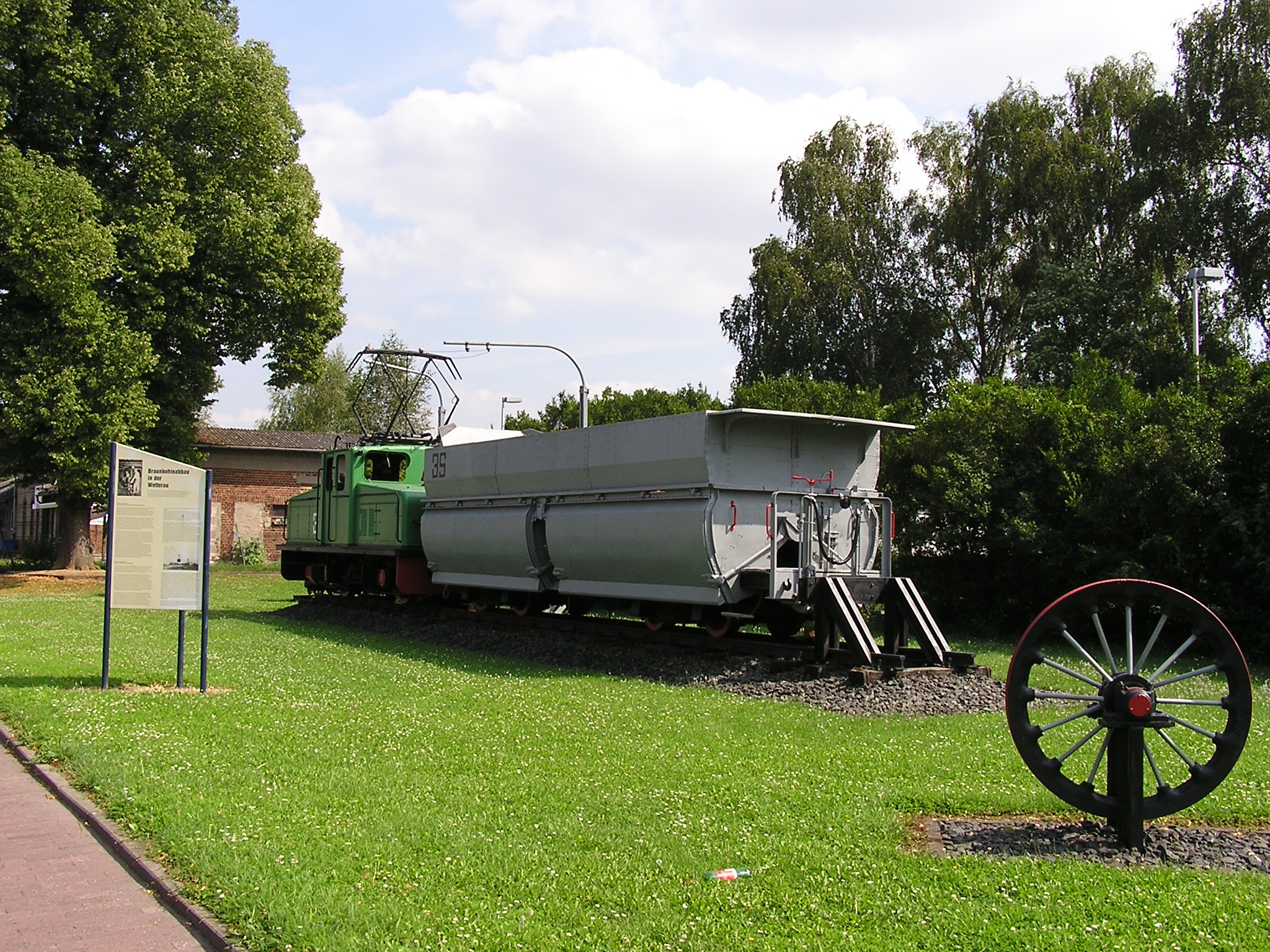 Former brown coal surface mining train as an open-air memorial in Reichelsheim-Weckesheim